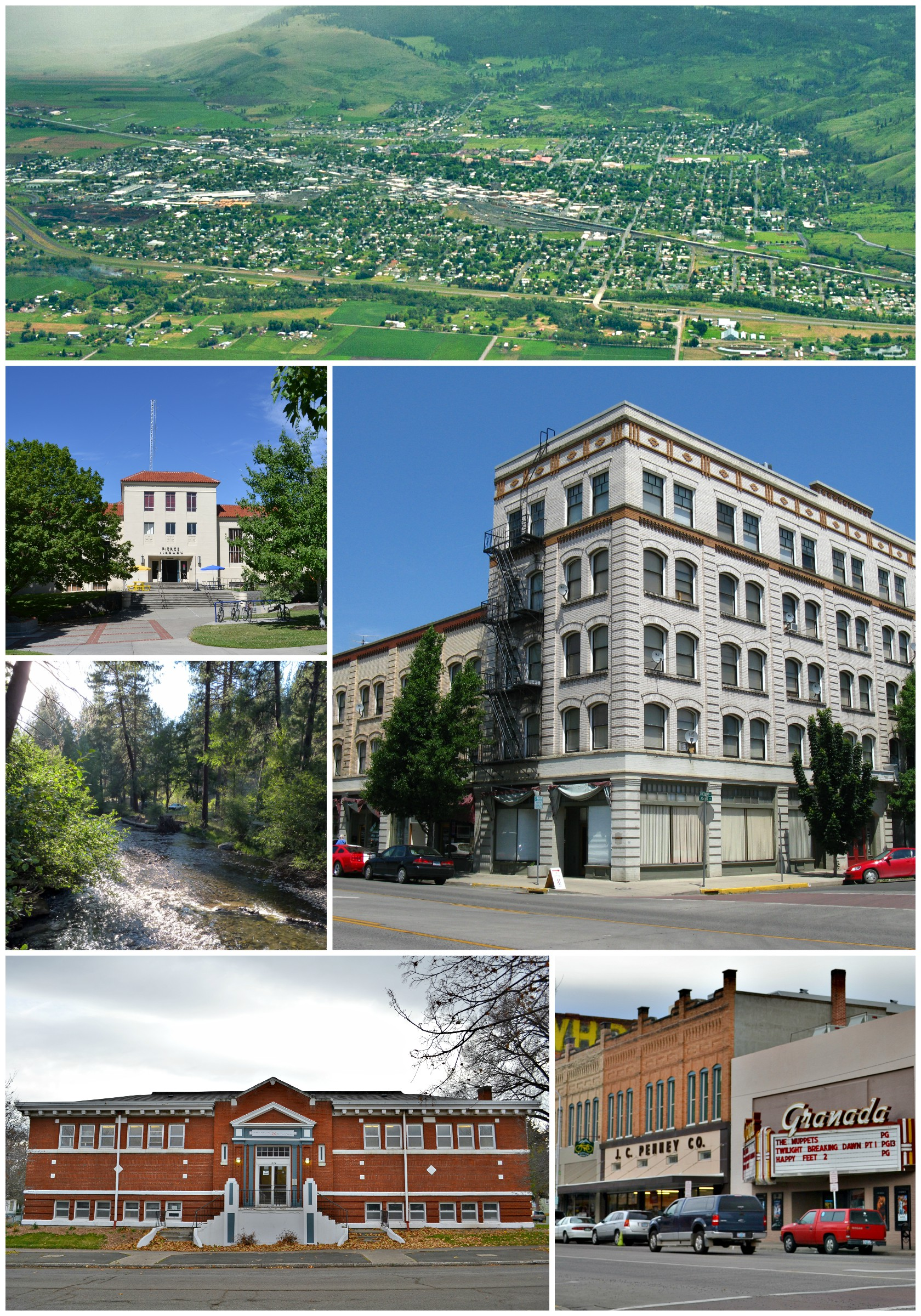 La Grande, Oregon montage using free use Wikimedia images